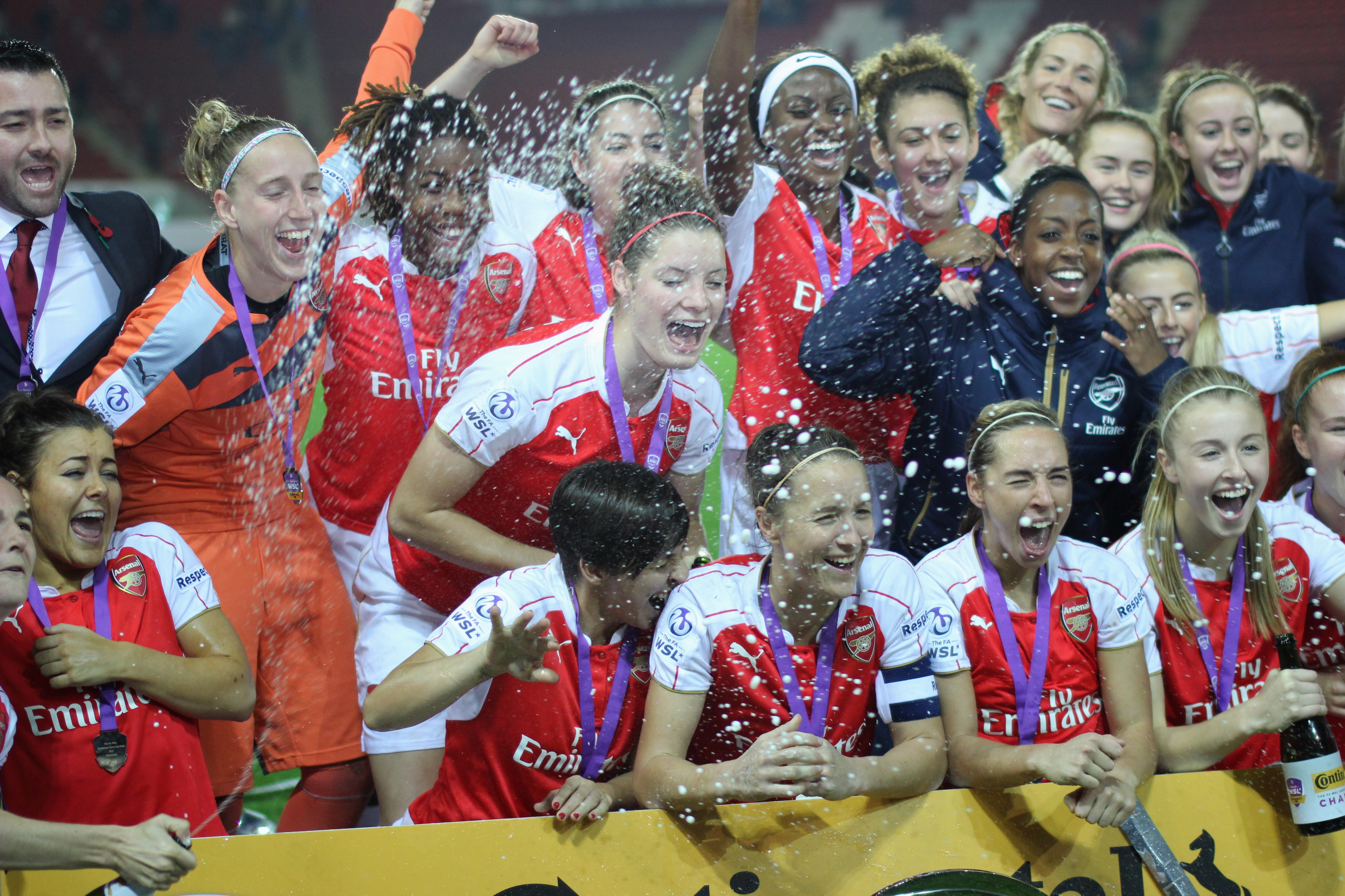 Arsenal Ladies players celebrate winning the Continental Cup Final against Notts County.